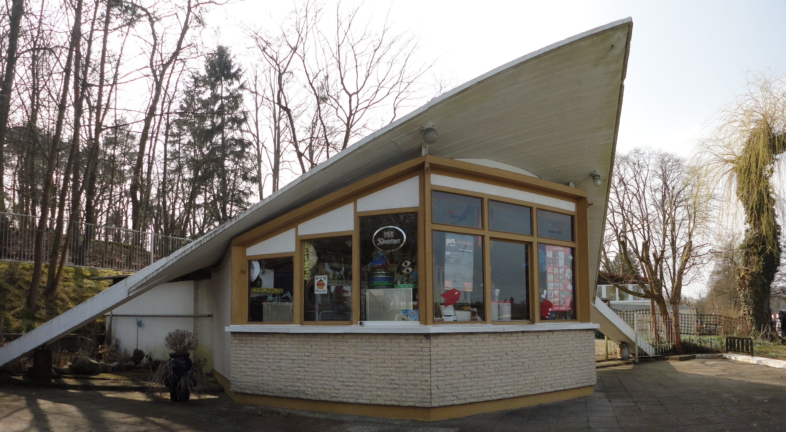 Eastern view of Strandkiosk Templin. Architect: Ulrich Müther